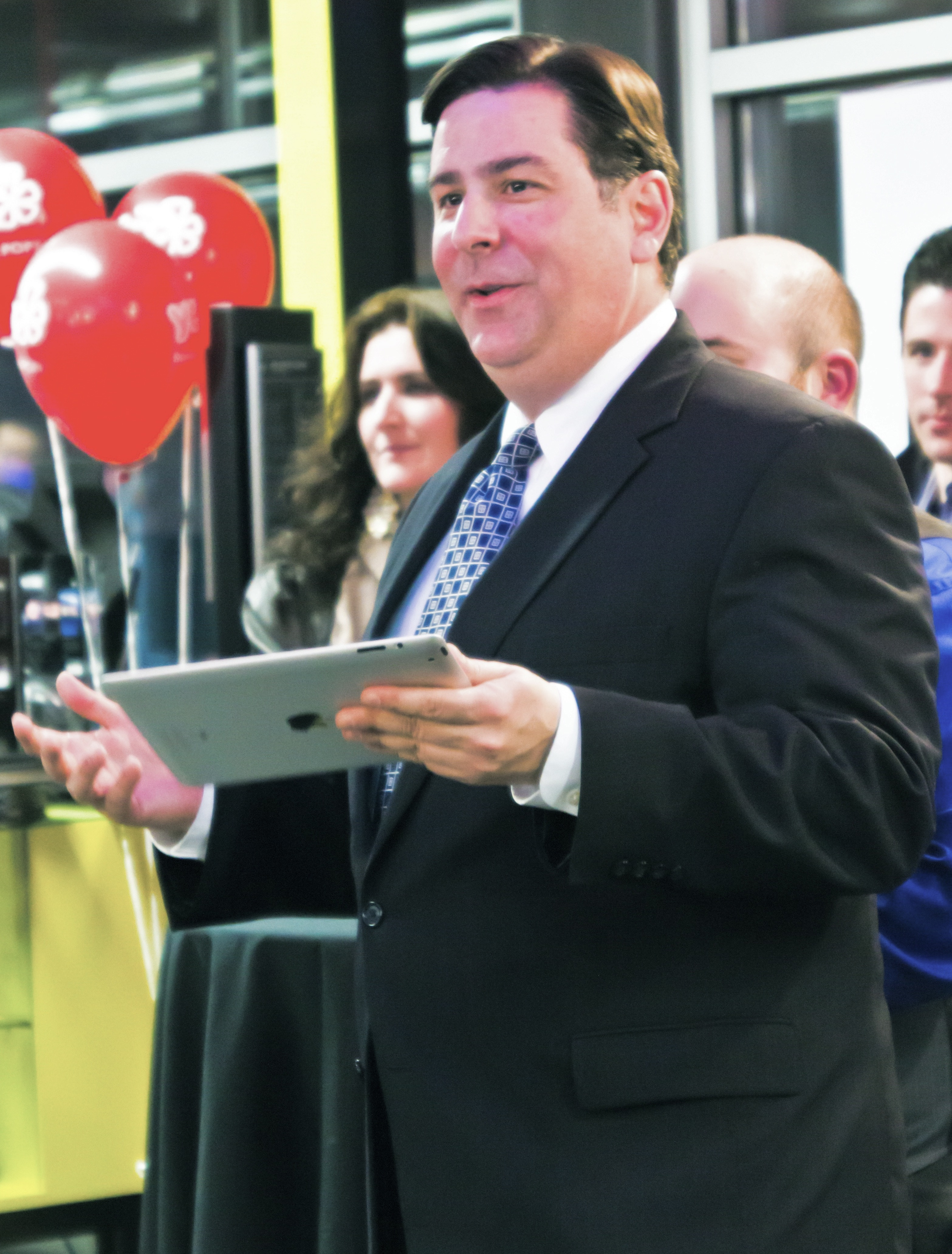 Pittsburgh City Councilman Bill Peduto at Pittsburgh Restaurant Week Kickoff Party.